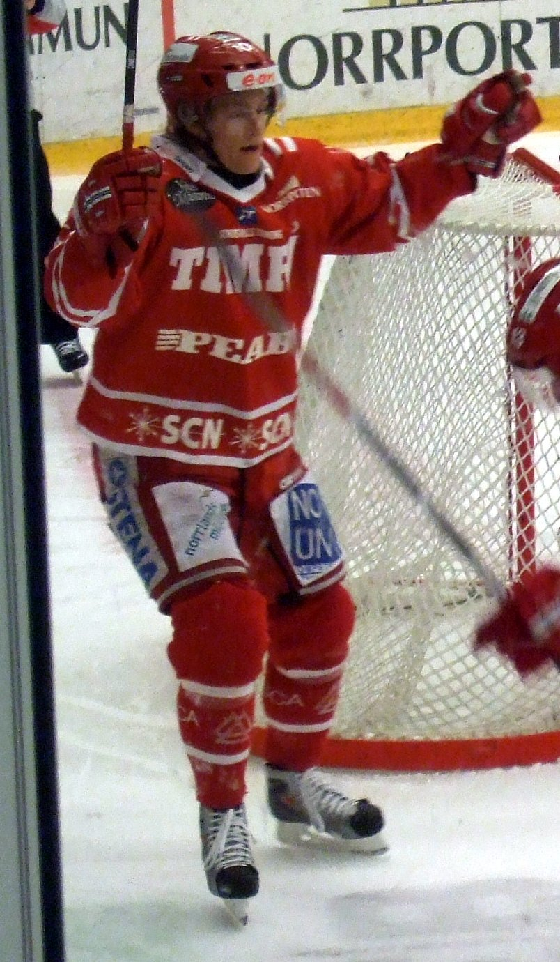 Ice hockey player Oscar Sundh of Timrå IK in E.ON Arena, Timrå, Sweden